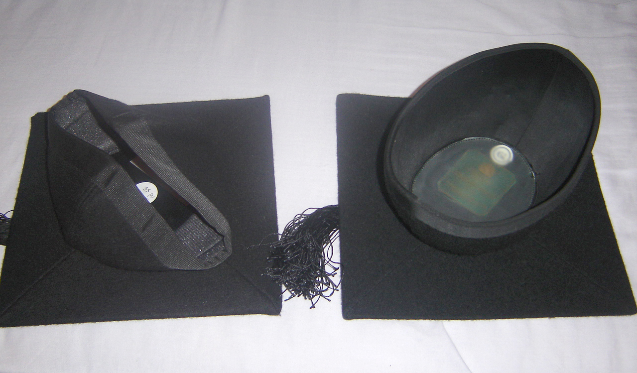 Two British mortarboards; left, Shepherd and Woodward folding-skull; right, Ede and Ravenscroft rigid-skull. Photo by Charlie Rupert Yongle Xu, August 2007.